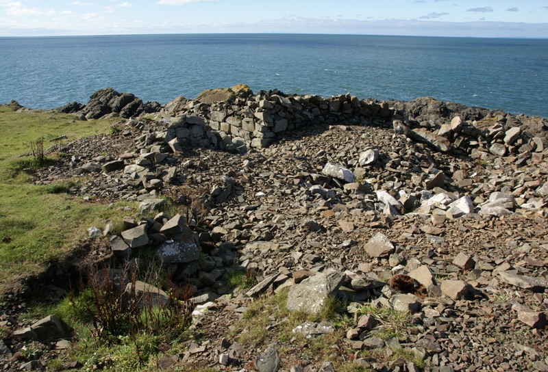 Doon Castle Broch, Ardwell Point, Dumfries and Galloway, Scotland. Interior (southern part)